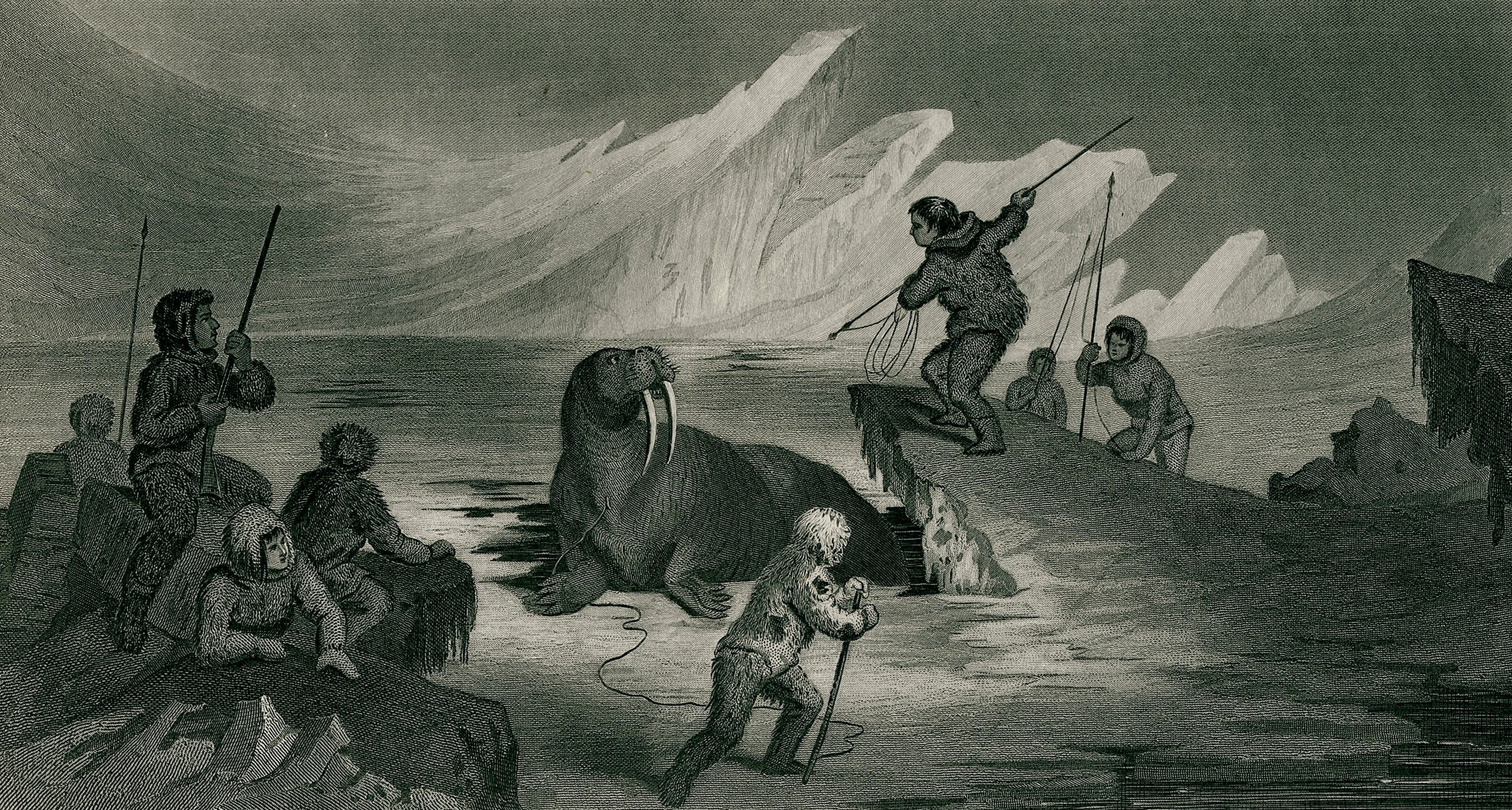 Plate entitled "Walrus Hunting"